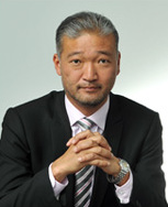 CEO of Gala Inc.